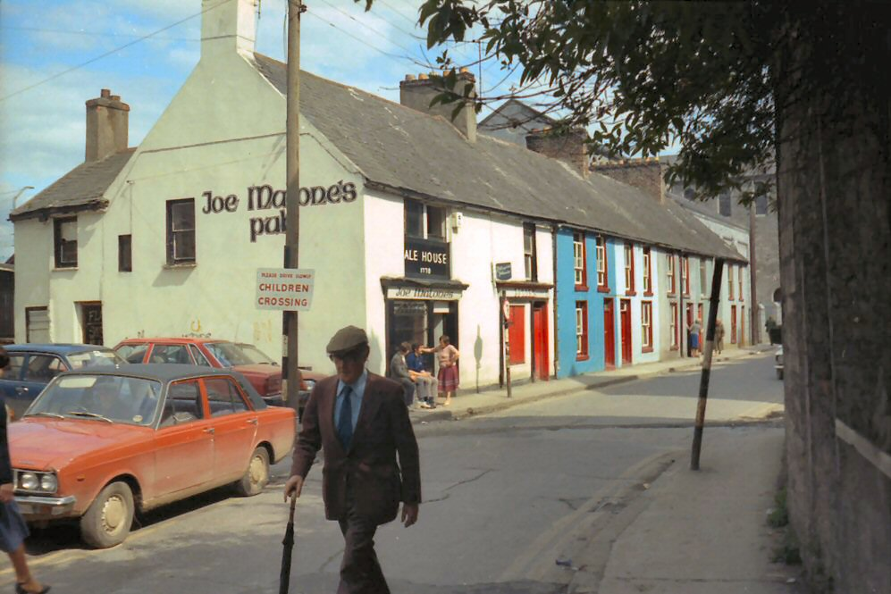 Joe Malone's Pub, Denmark Street, Limerick, May 1982. Demolished c.1990. Taken by Sean an Scuab.